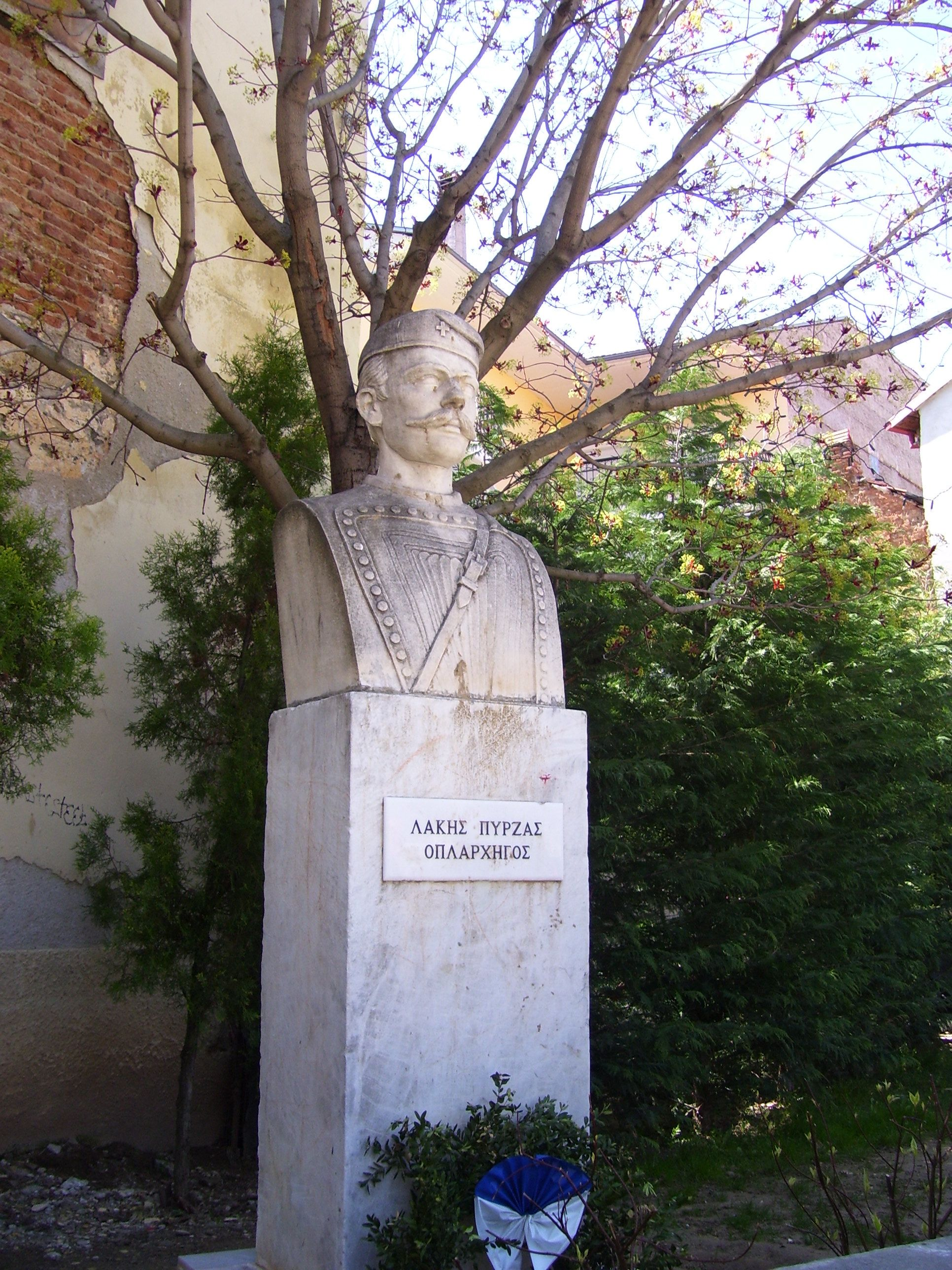 Monument of Lakis Pirzas in the town of Florina, Greece.